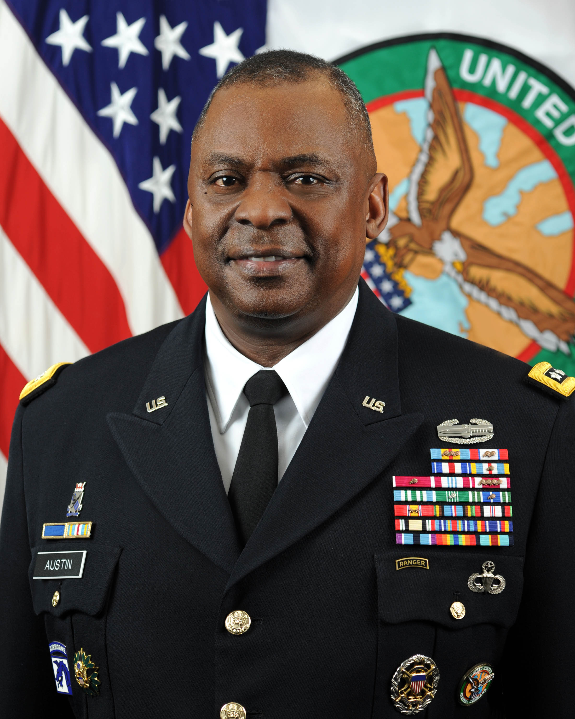 New official photo of Lloyd J. Austin, commander USCENTCOM